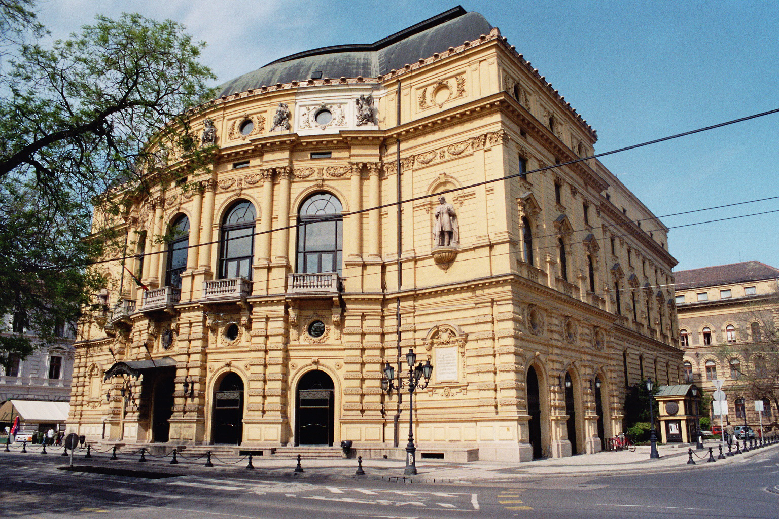 National Theatre of Szeged, Hungary.